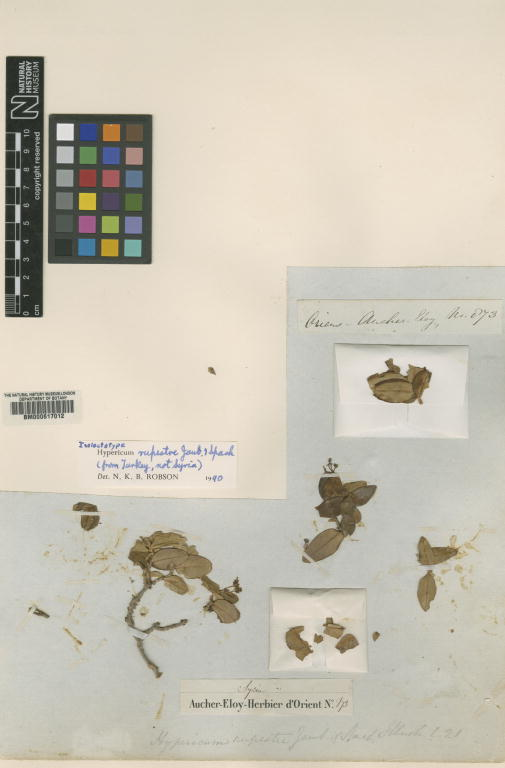 Specimen of Hypericum rupestre (Catalog Number BM000617012) at the National History Museum Online Data Portal recorded by P M. Aucher-Eloy that is the isolectotype of the species.